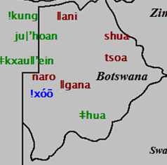 Taa ( aka !Xòö ) endangered language spoken in Botswana in blue